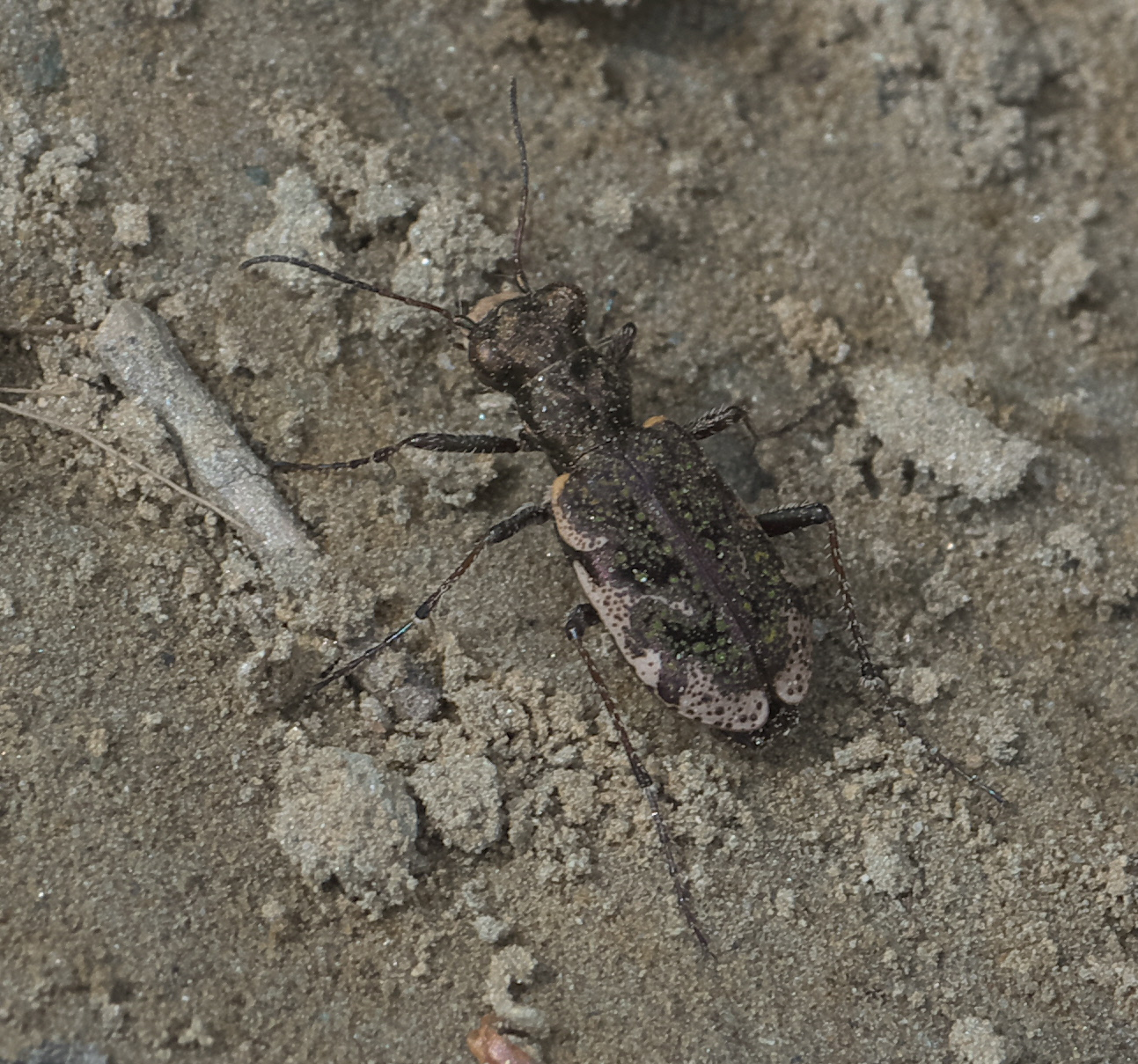 Neocicindela garnerae, South Island Tiger beetle (native) (nz), ID Confidence: 88